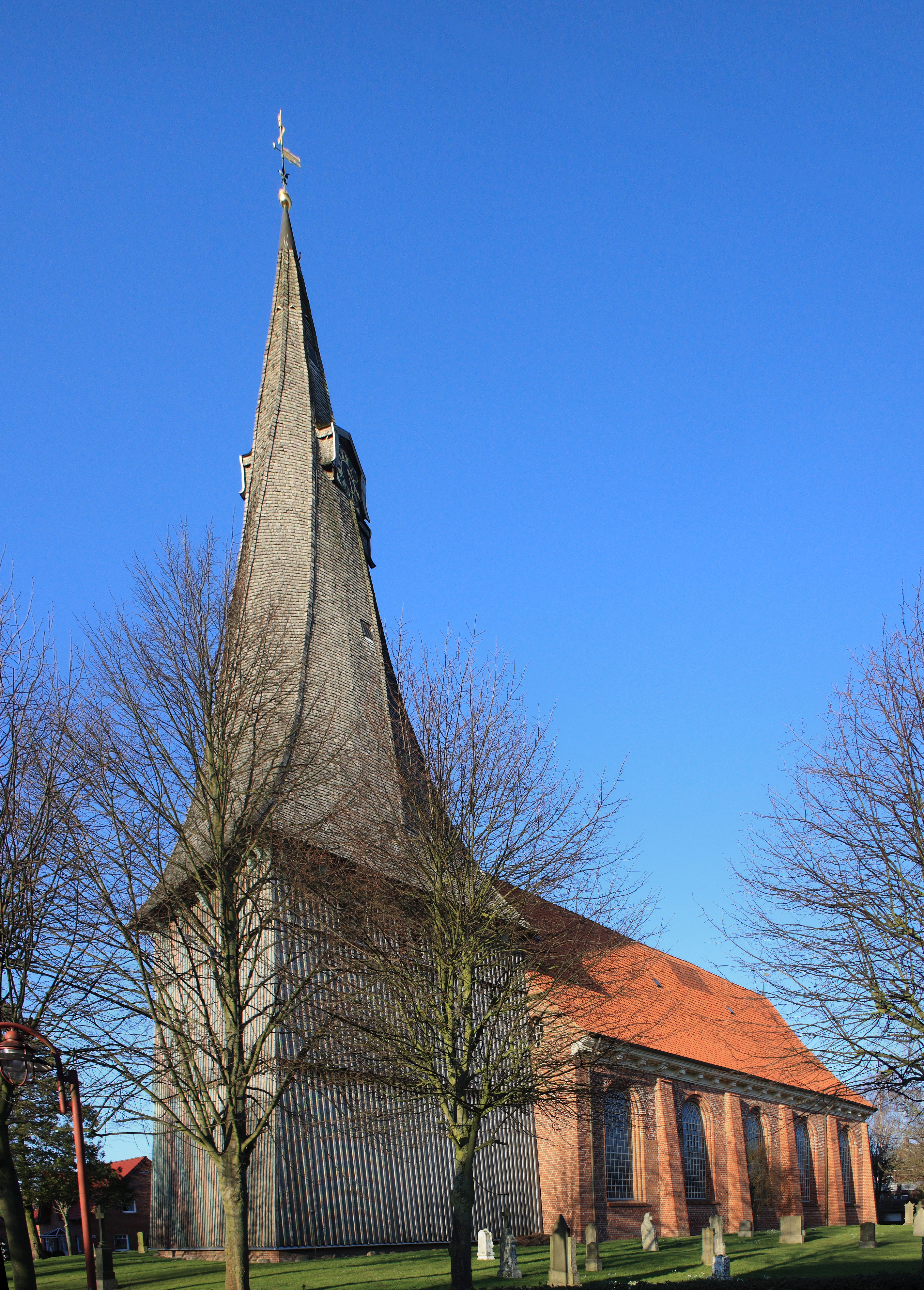 St. Martin's Church in Estebrügge